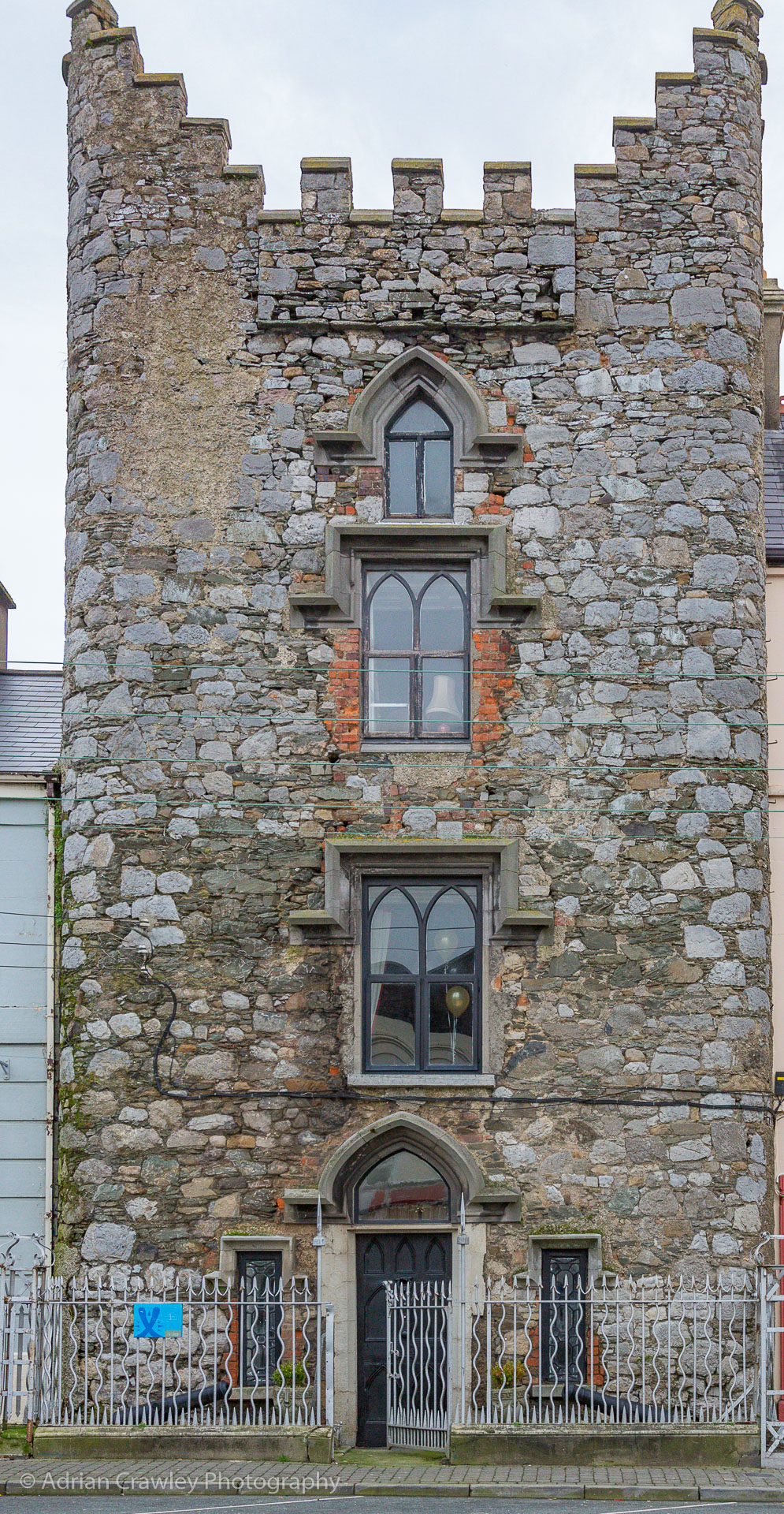 An Image of Hatch's Castle, Ardee